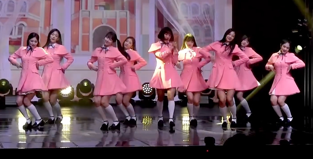 fromis_9 debut stage, performing "To. Heart"